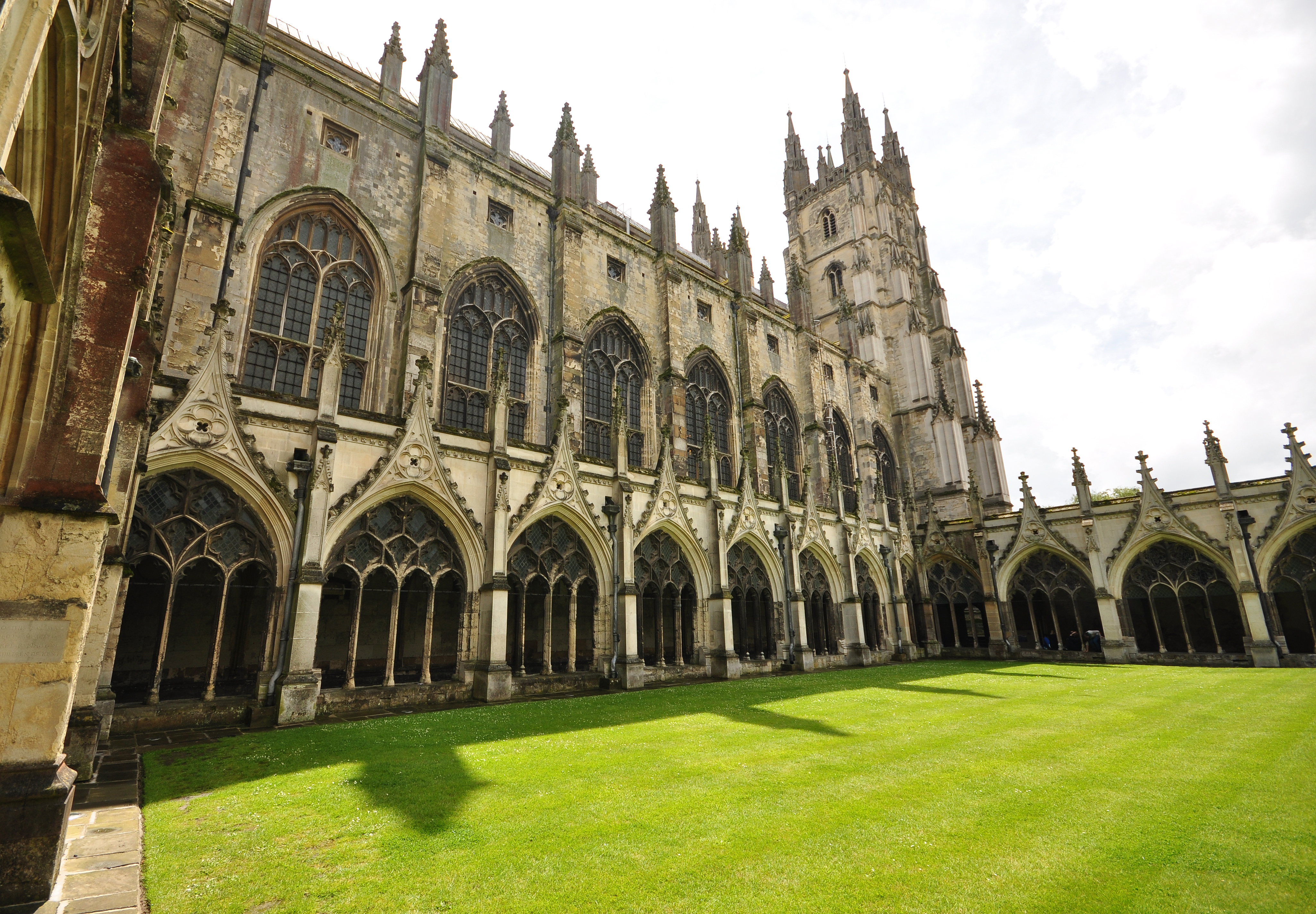 View from the cloister of Canterbury Cathedral, back towards the main part of the church.